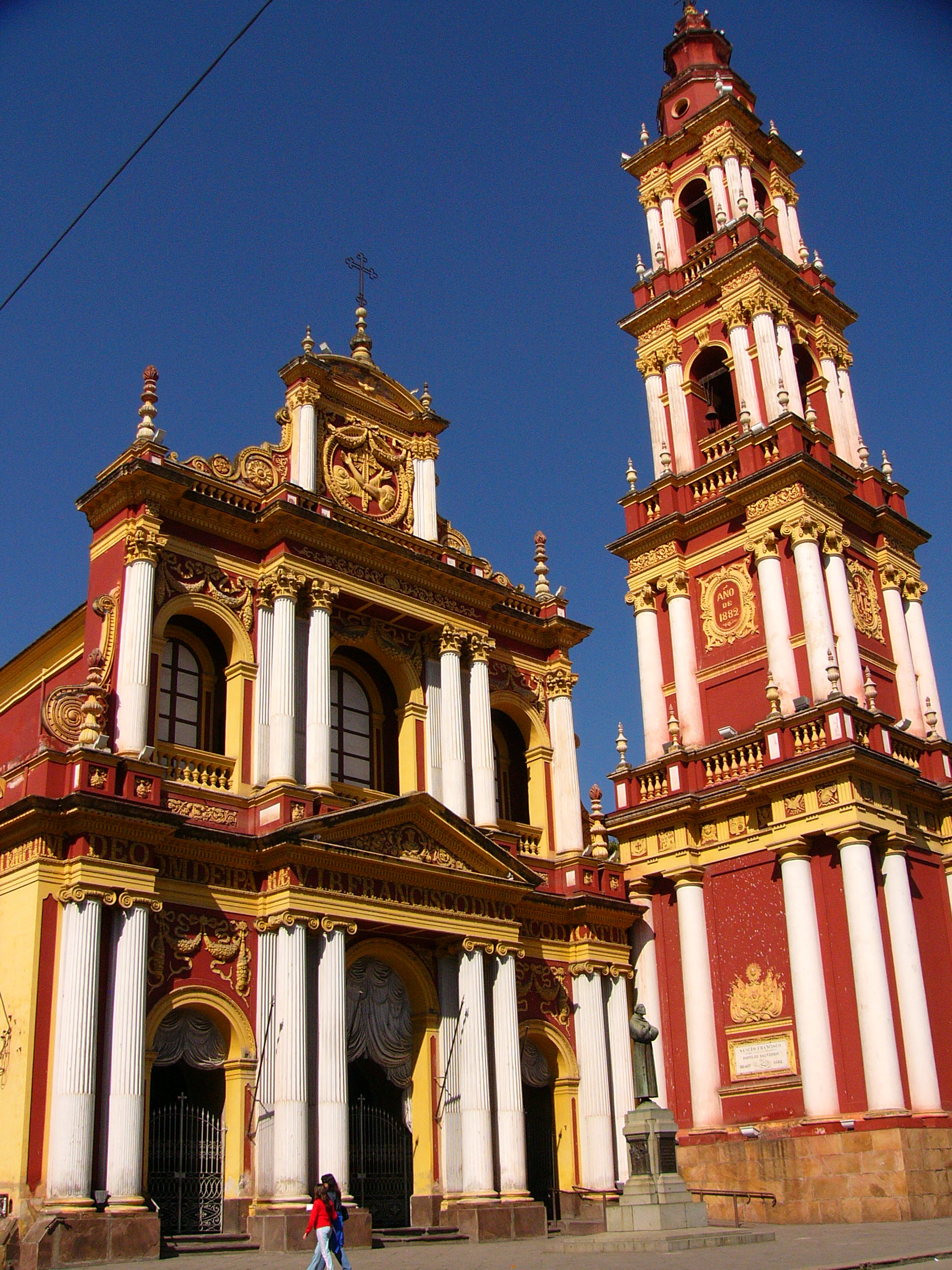 S. Francisco Church in Salta, Argentina